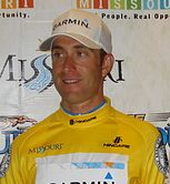 Christian Vande Velde after winning the Time Trial at 2008 Tour of Missouri